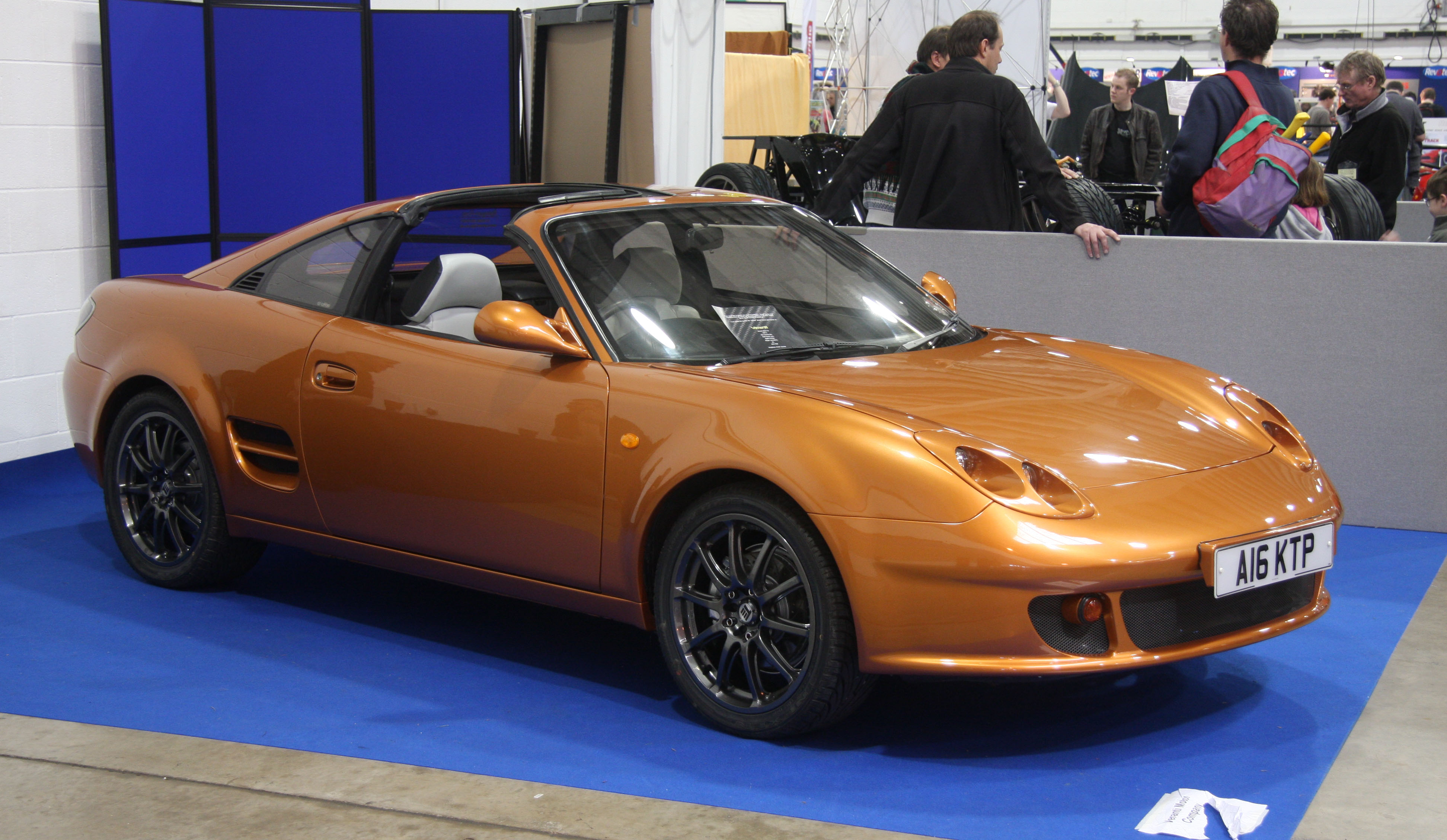 The Veranti Coupe is a kit car built by the regent Motor Co.